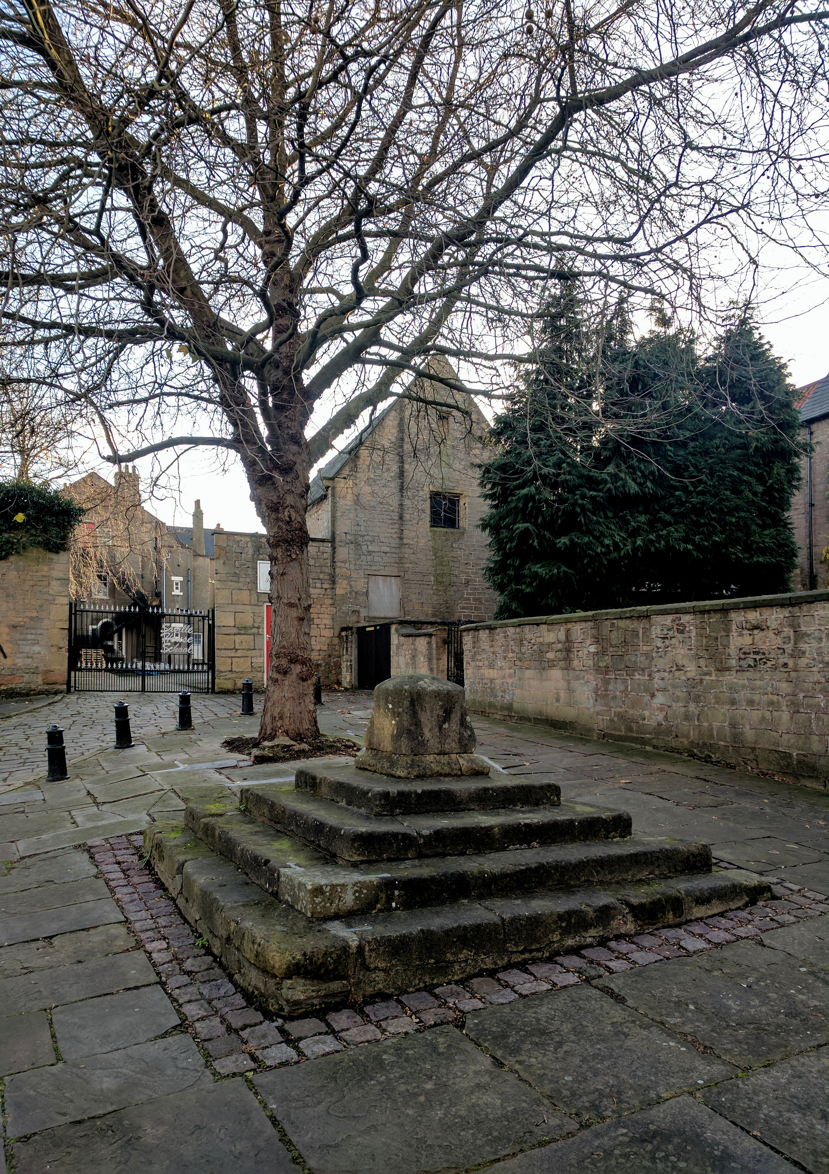 Standing cross on Church Street, Mansfield Woodhouse Wikidata has entry Q17660550 with data related to this item.